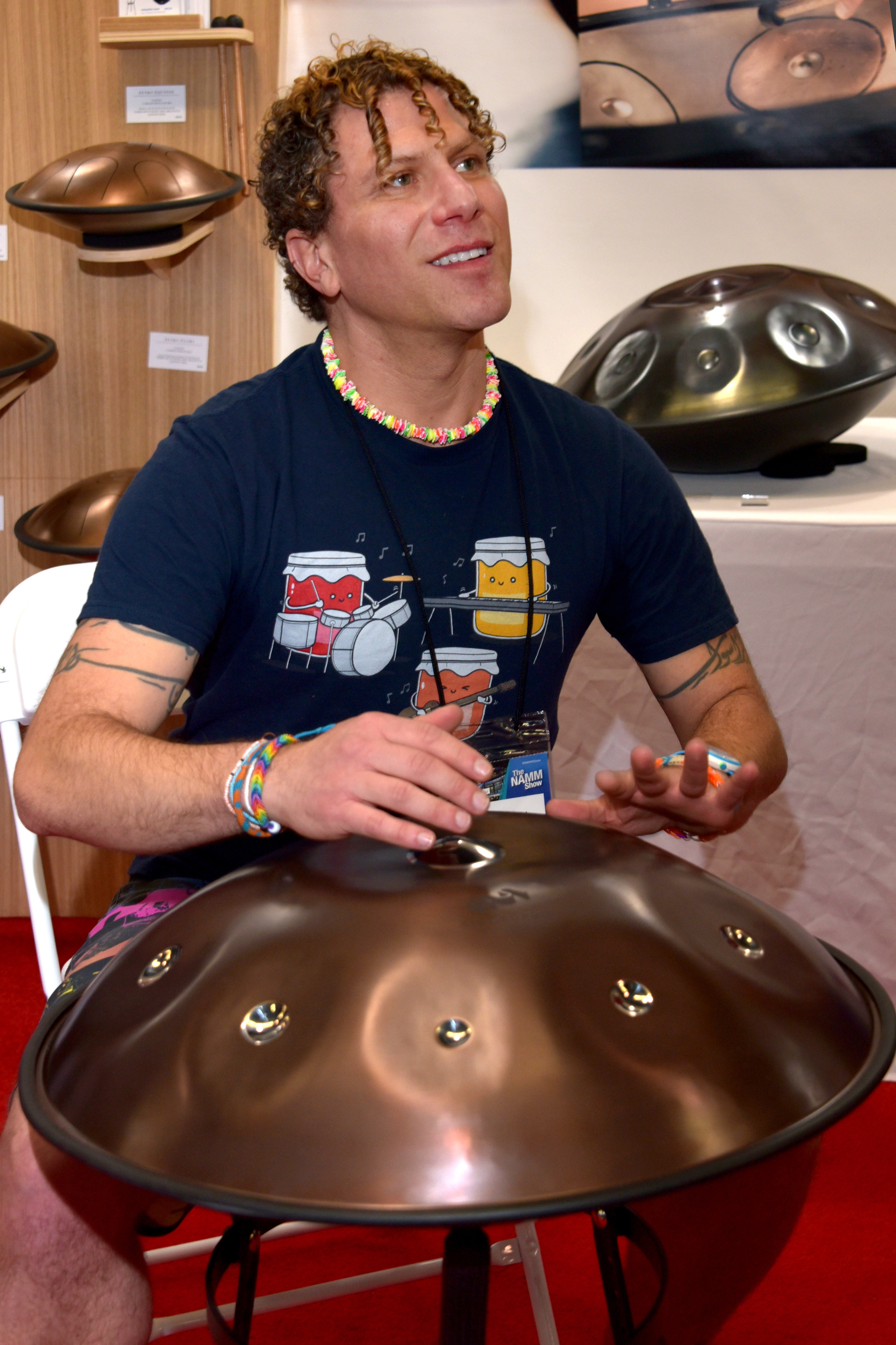 Musician demonstrating Handpans at'The NAMM Show' in Anaheim California on Jan. 17, 2020 - Photo by Glenn Francis of